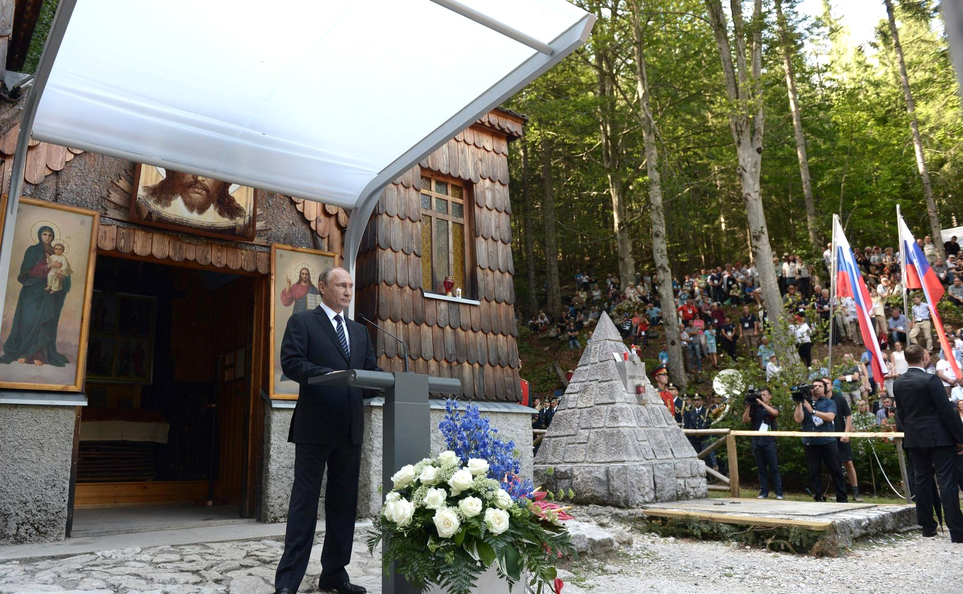 Putin's speech at the memorial ceremony marking the 100th anniversary of the Russian chapel near the Vršič Pass in memory of Russian soldiers who died there during the First World War.